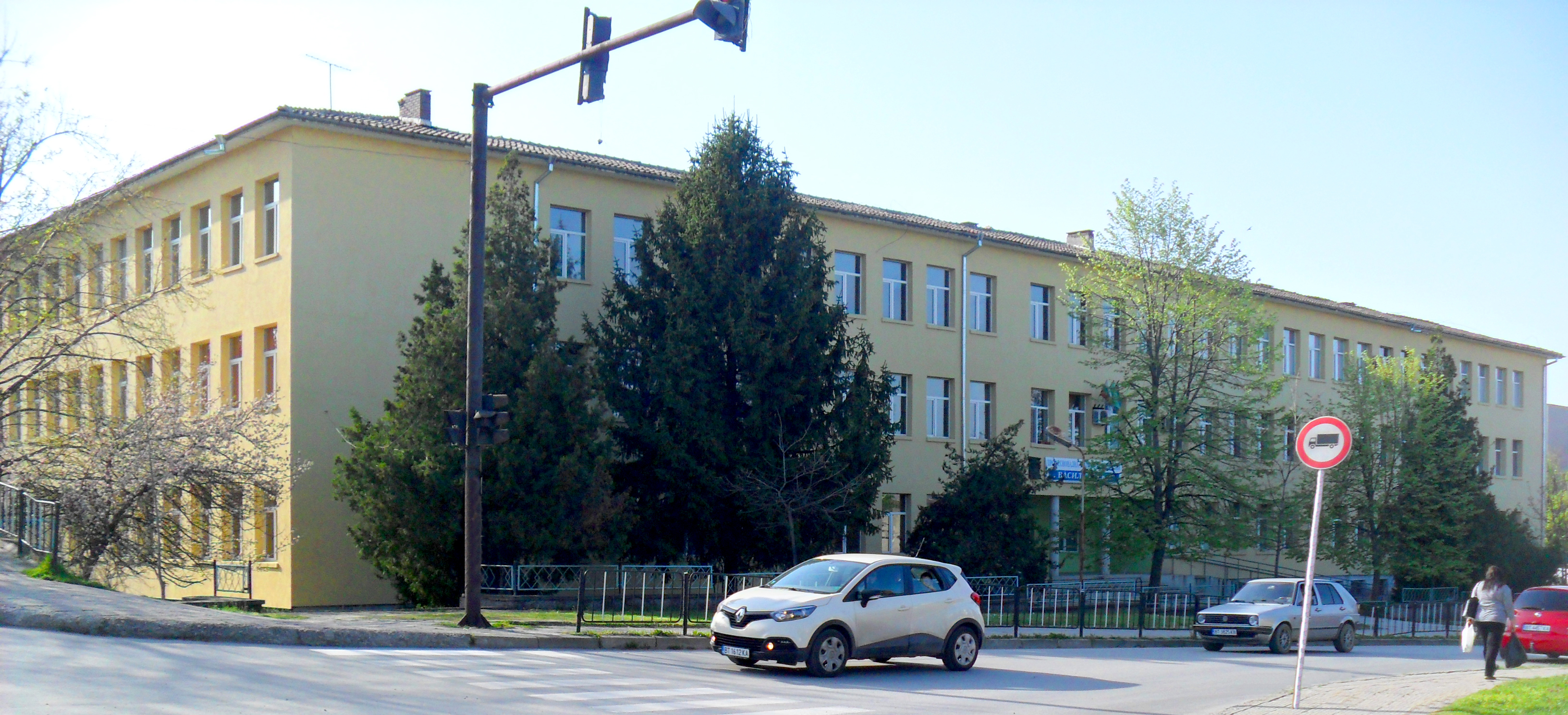 This is the first technical school in the town